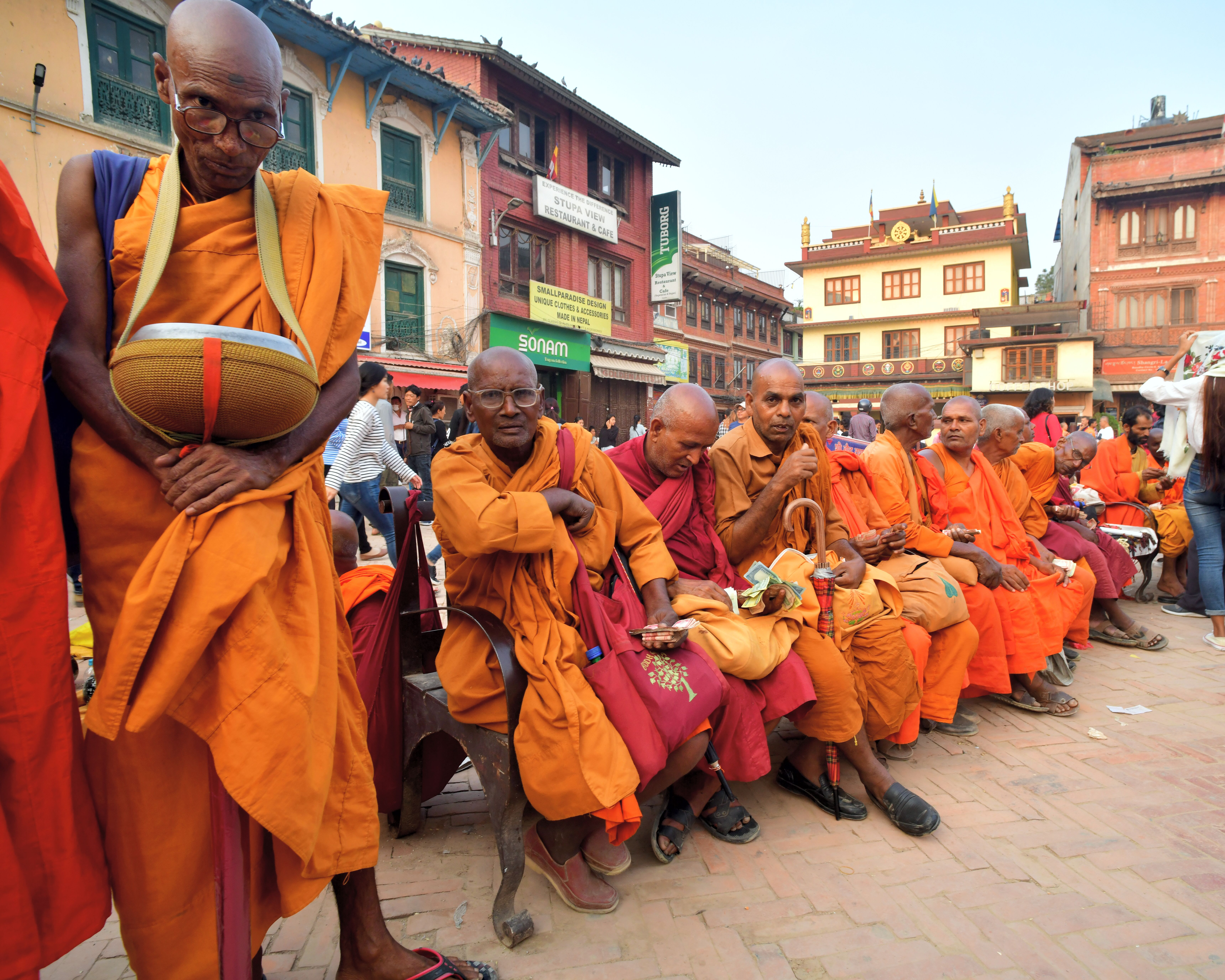 Theravada monks at Boudha on Vaishakha 2018.